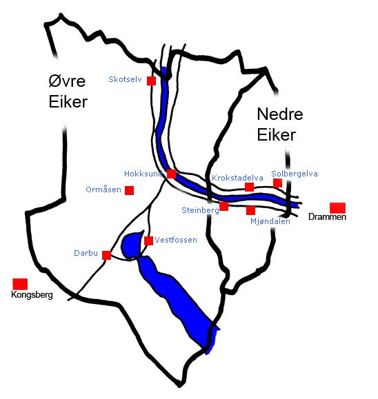 Map of Skotselv and the surrounding area.